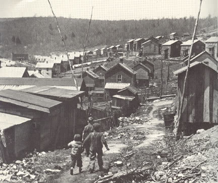 Harlan County Miners Houses